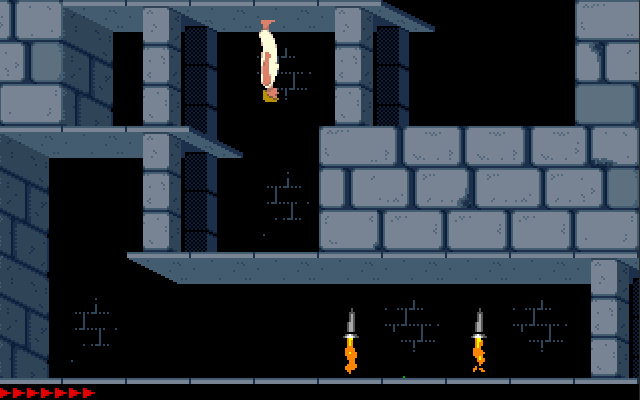 Screenshot from the video game (own work).